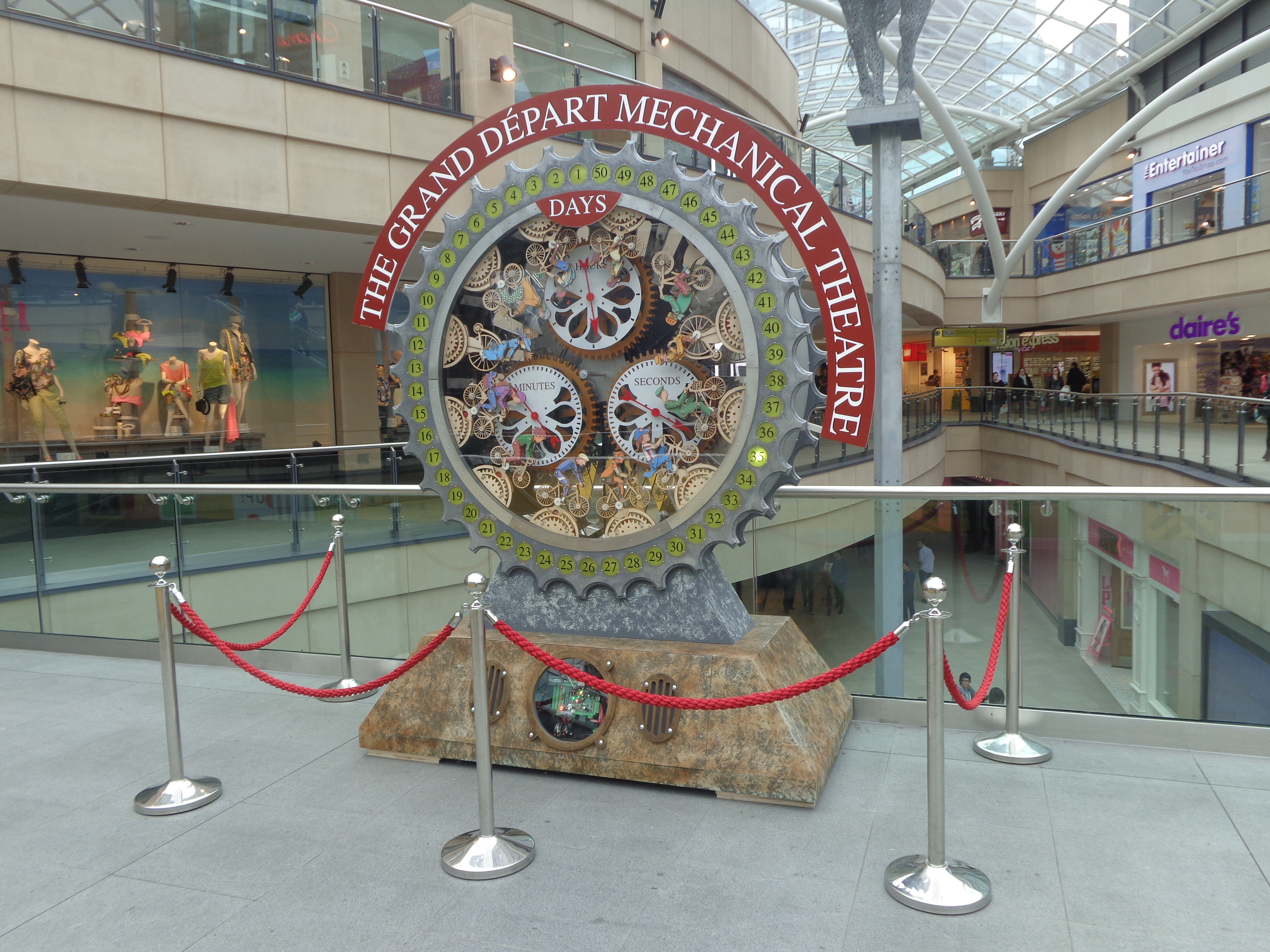 Tour de France countdown clock, first floor, Trinity Leeds, Leeds, West Yorkshire. Taken on the evening of Friday the 30th of May 2014.